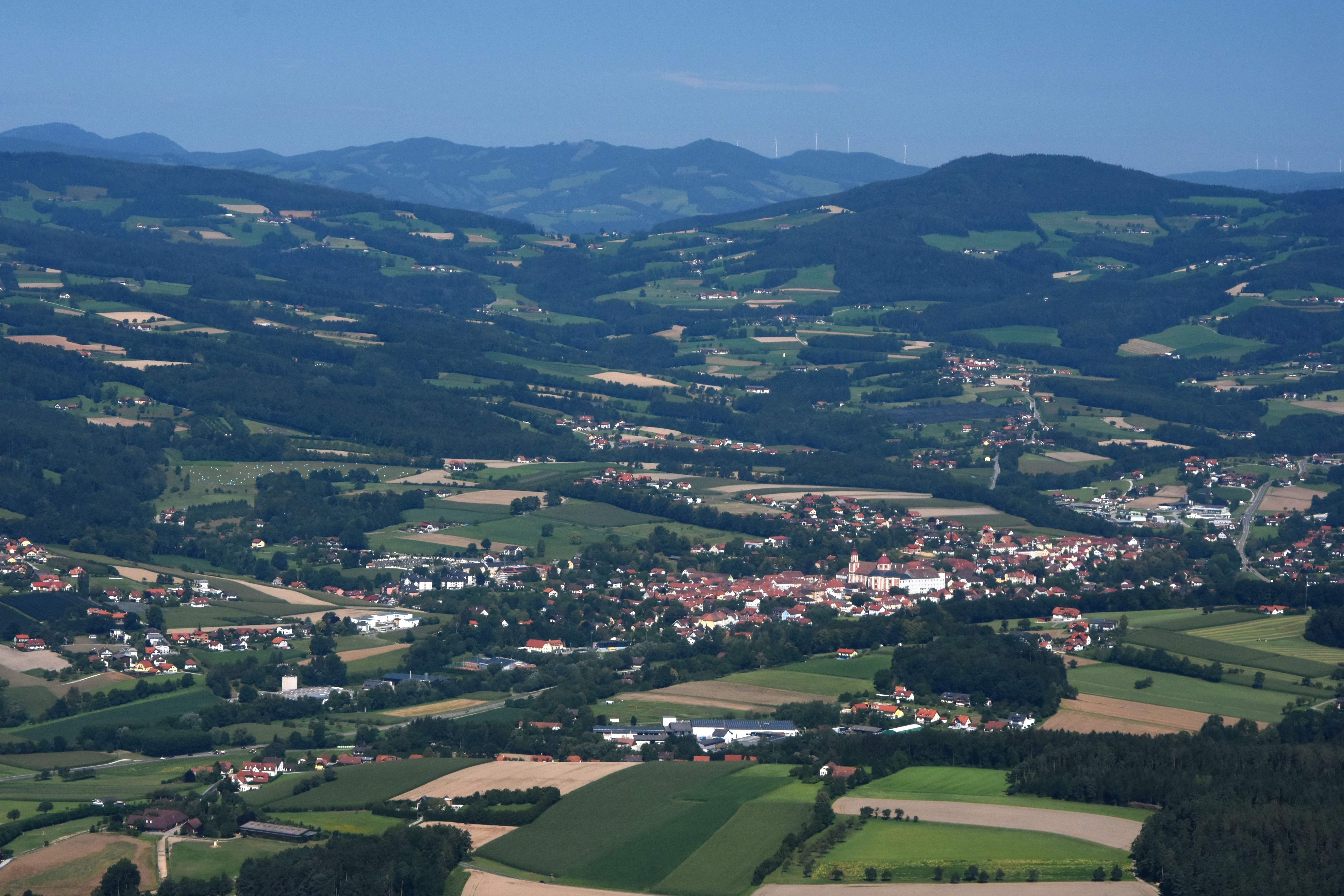 Naturpark Pöllauer Tal